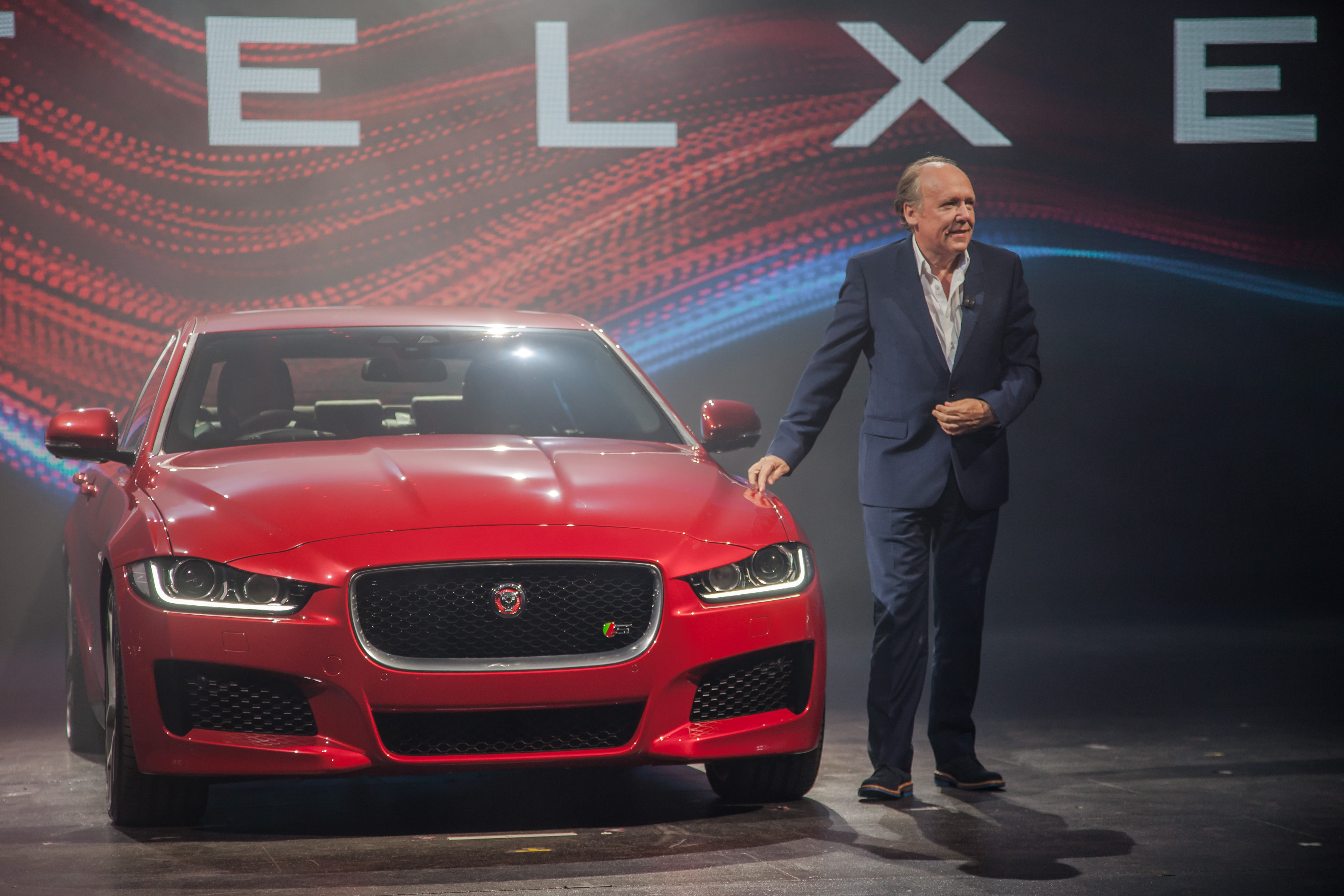 Jaguar Takes Over London to Launch the New XE to the World